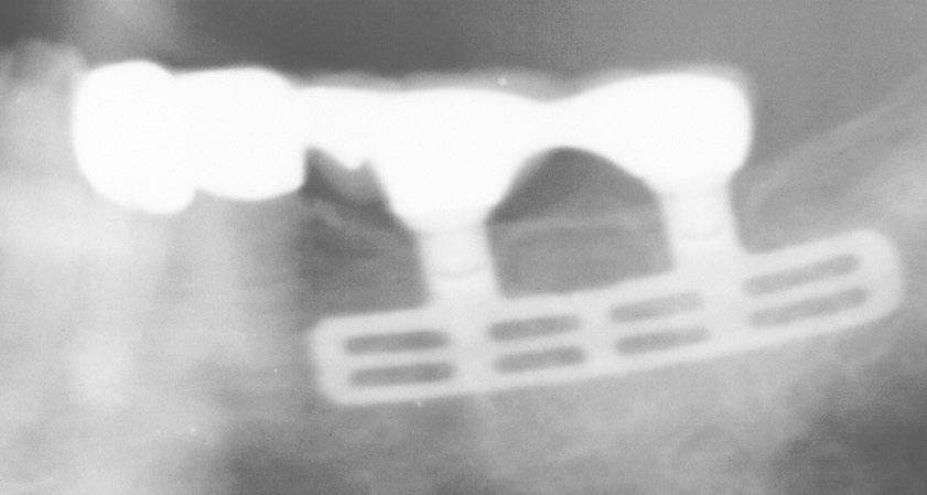 X-ray of a butterfly - shaped dental implant inserted into the lower jaw; Implantat, Blattimplantat